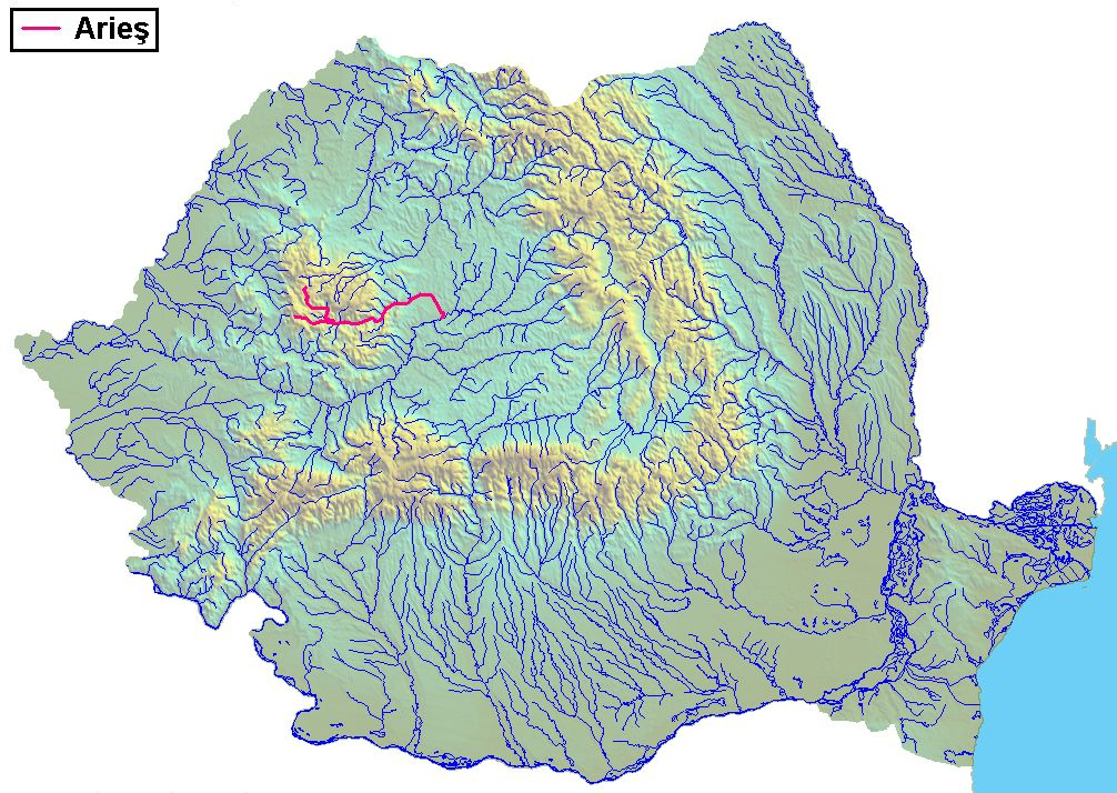 Aries River